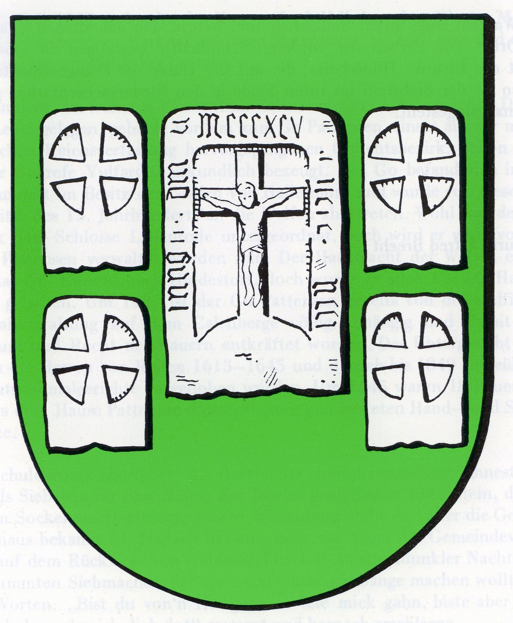 Coat of Arms of Hiddestorf, Part of Hemmingen